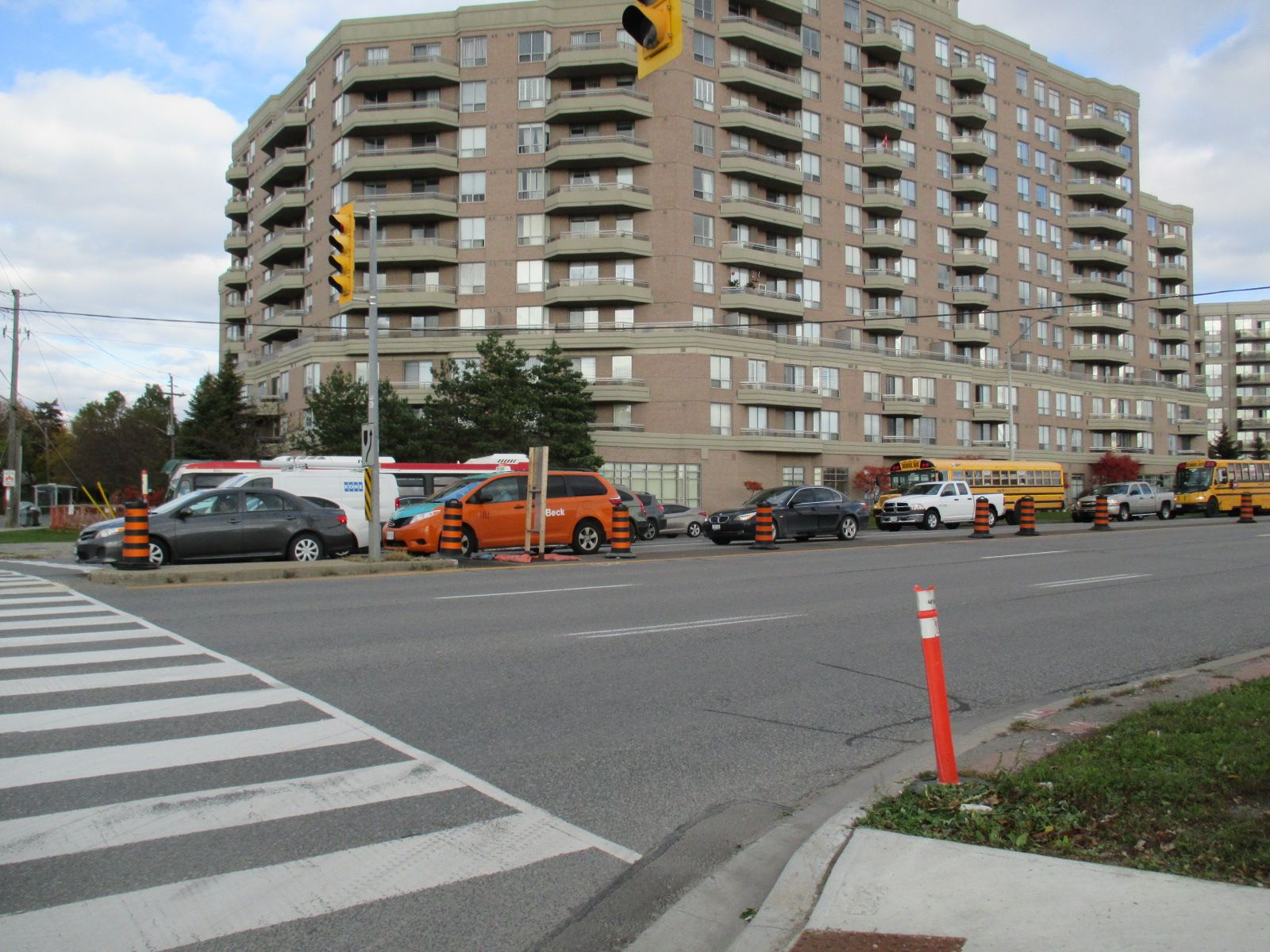 Site of the future Sloan stop on Line 5 Eglinton on the east side of the intersection of Eglinton Ave E with Sloan Ave & Bermondsey Rd. The red & black bollards stand along the alignment of the future LRT tracks and platforms.